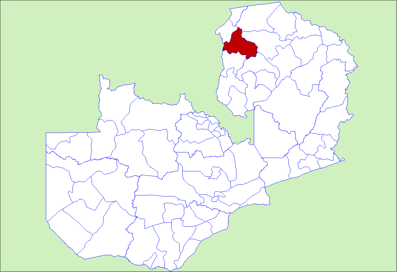 District locator in Zambia